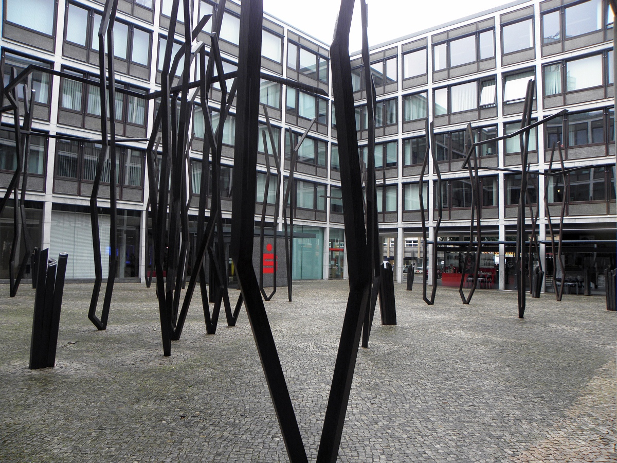 Hanover 2010